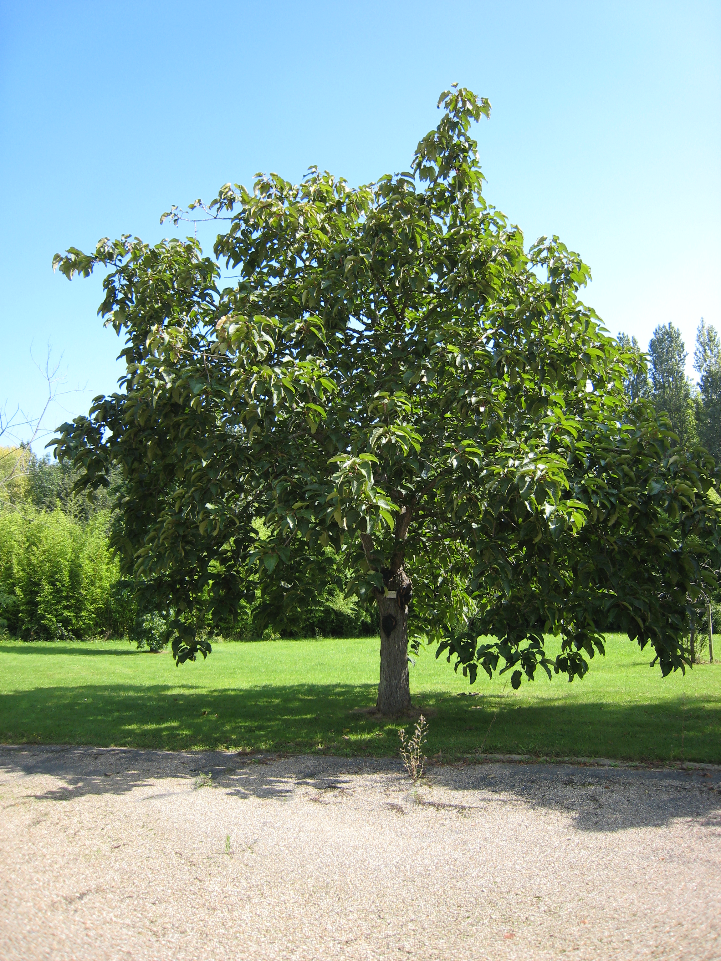 Populus lasiocarpa in the Arboretum de Chèvreloup in Rocquencourt